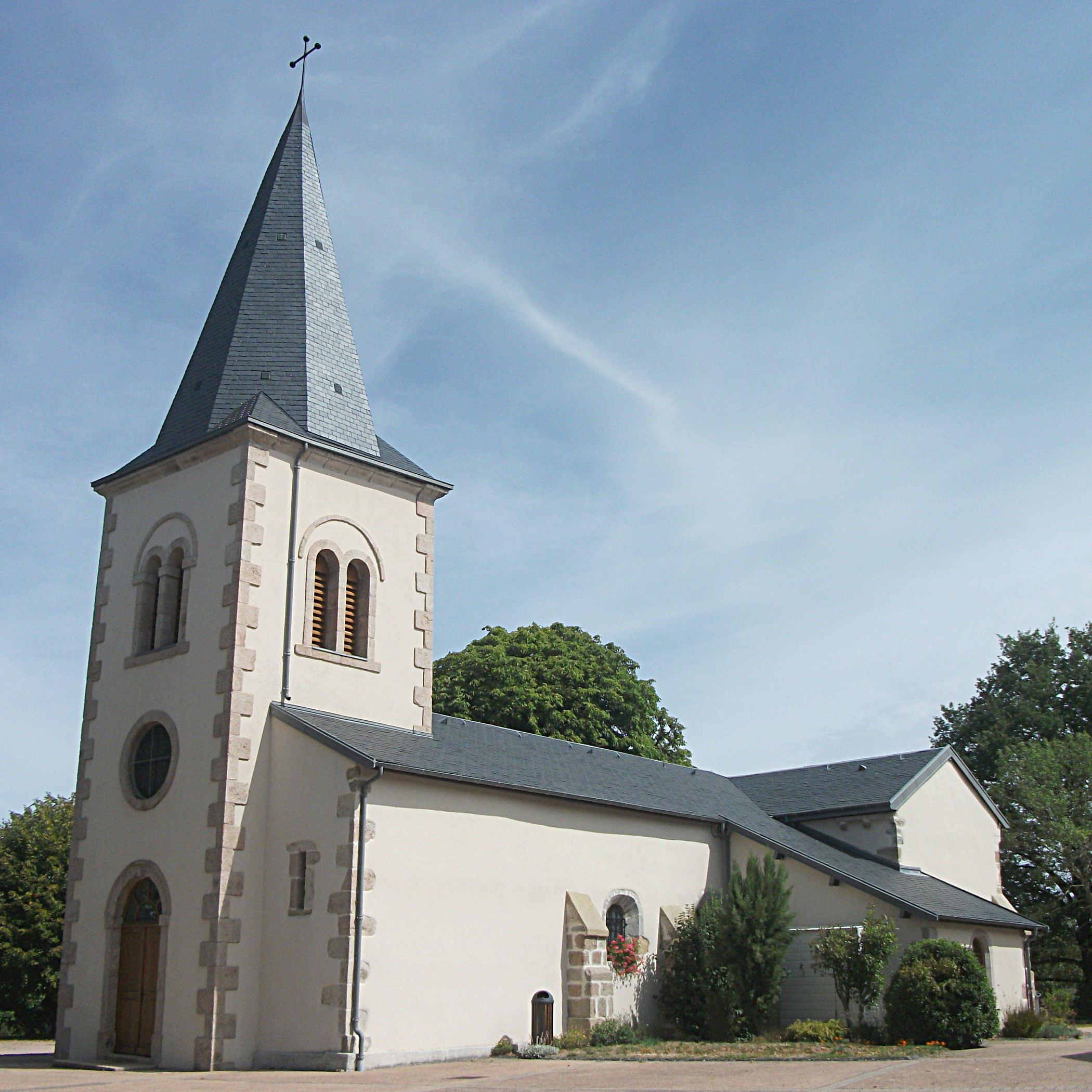 Church of Moureuille, Puy-de-Dôme, Auvergne-Rhône-Alpes, France. [18853]